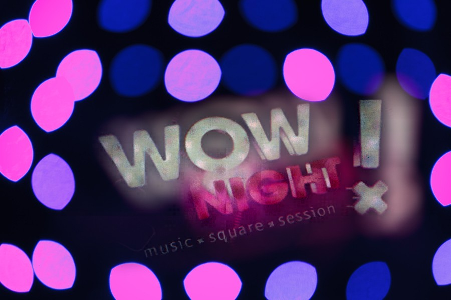 grafika